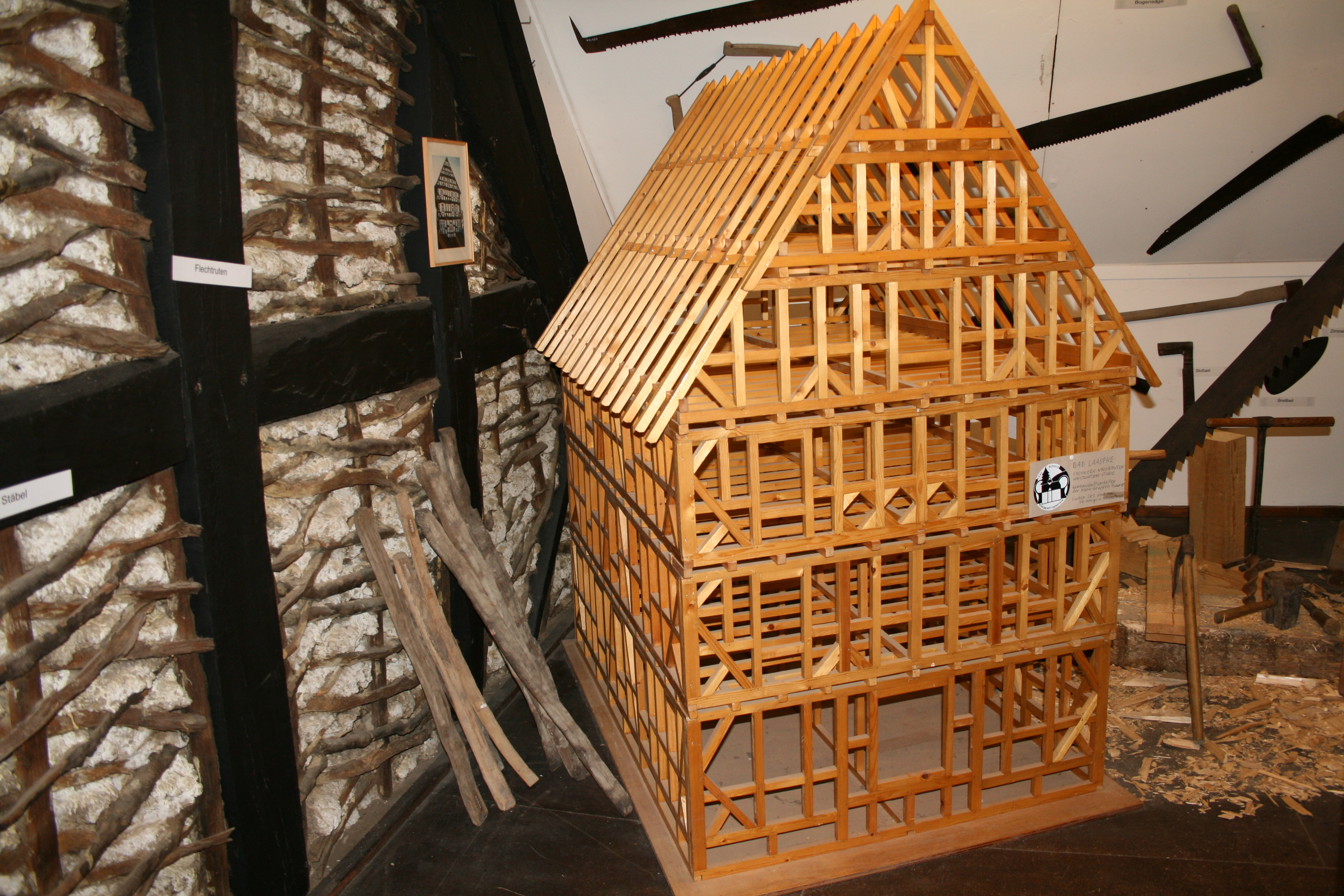 Exhibition of the local museum of Banfe (Heimatmuseum Banfetal), NRW, Germany. Heimatmuseum Banfetal LocationBanfeCoordinates50° 54′ 43″ N, 8° 21′ 00″ E Established1965